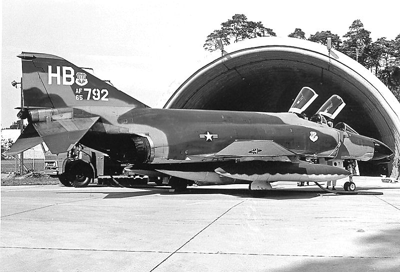 7th Tactical Fighter Squadron McDonnell F-4D-29-MC Phantom 65-0792, shown at Spangdahlem AB, West Germany in September 1970 during annual "Crested Cap" deployment to NATO. This aircraft was retired to AMARC as FP570 Oct 3, 1990. To Avon Park, FL bombing range for target Aug 26, 1998